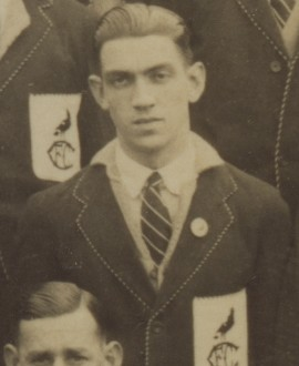 Photograph of Ken Veevers in 1929